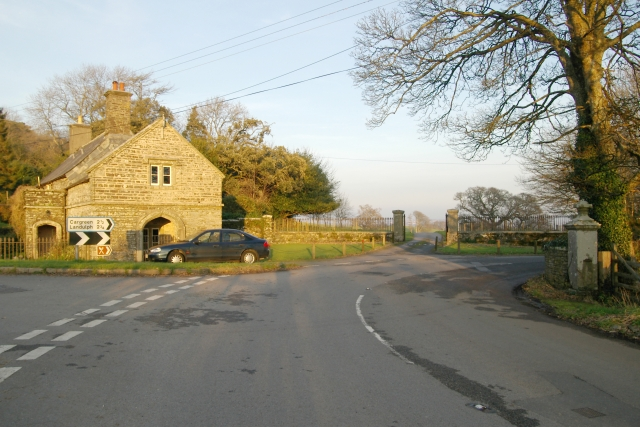 Entrance to Pentillie Castle, near Saltash. Entrance to Pentillie Castle, Paynters Cross, near Saltash. The house is within SX3964, but the gates at the end of the drive to the castle lie just in SX4064.